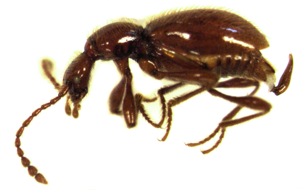 Adrastia angulifrons (male, length about 3 mm)